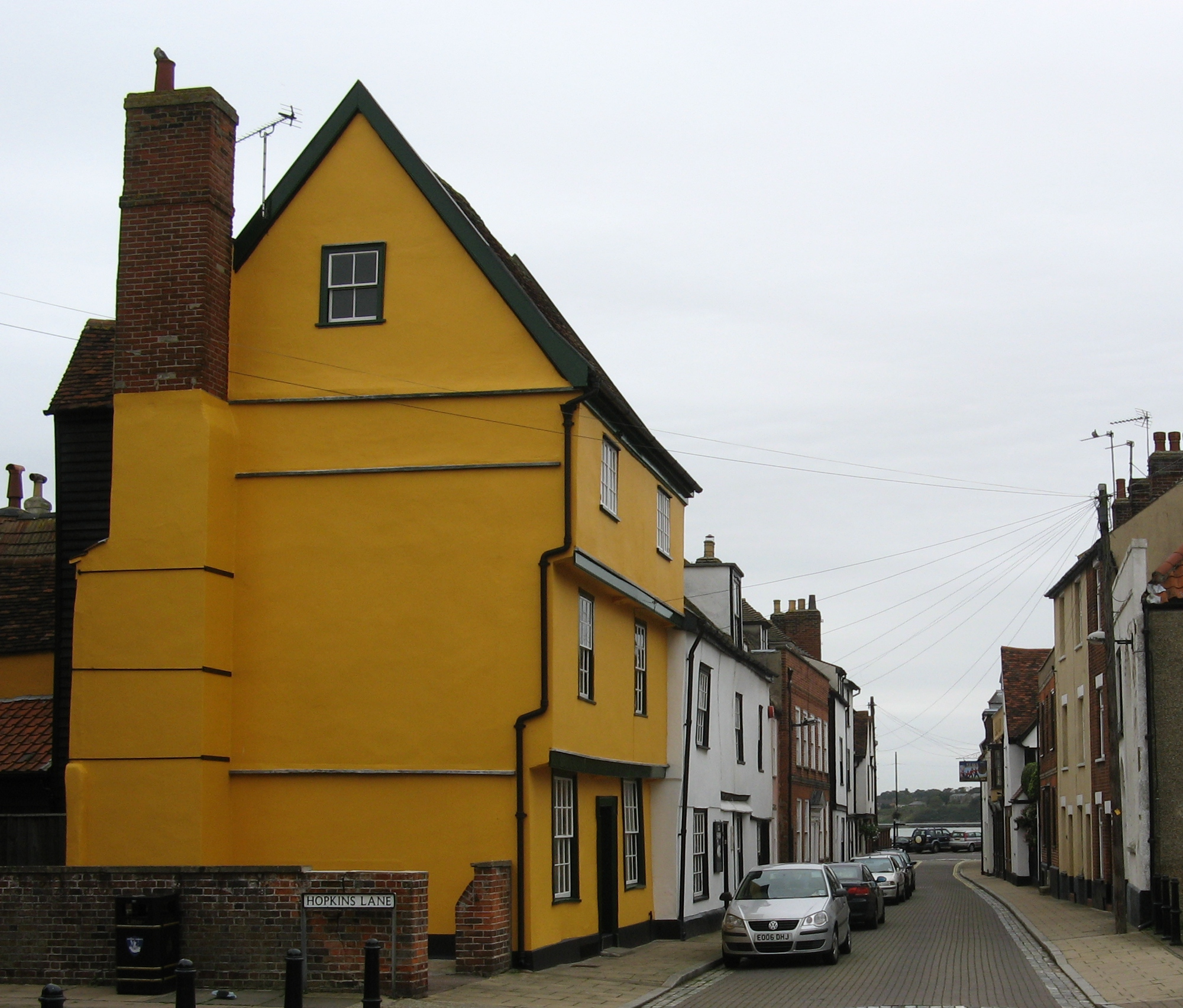 Quay end of King's Head Street, Harwich, looking toward quay and harbour from junction with Saint Austins Lane. The Alma Inn sign is visible near the quay.